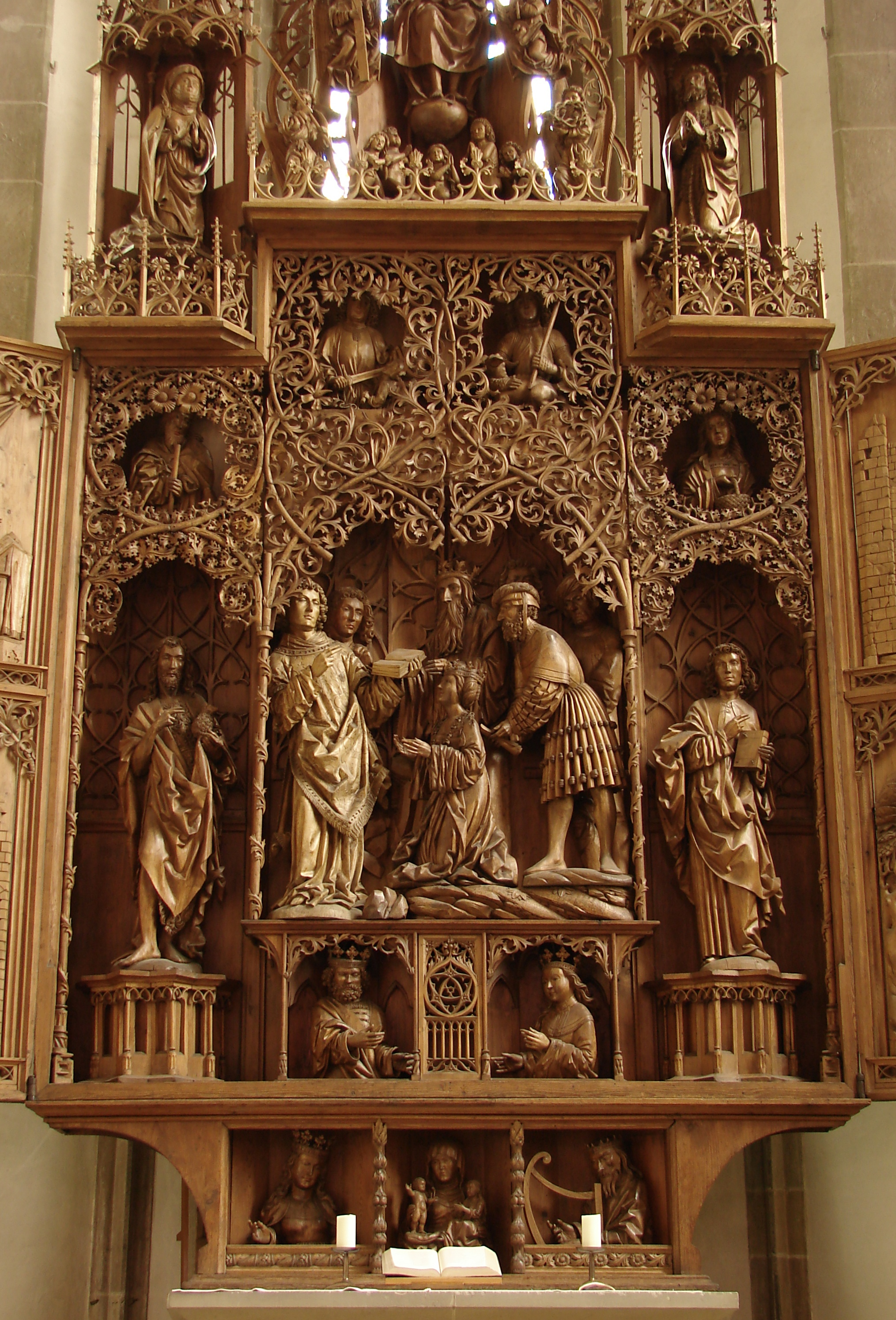 Besigheim, Germany, middle part of wooden altar from early 16th century in the protestant town church